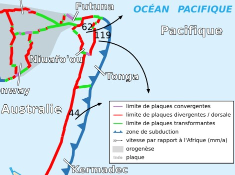 Map of the Tonga Plate